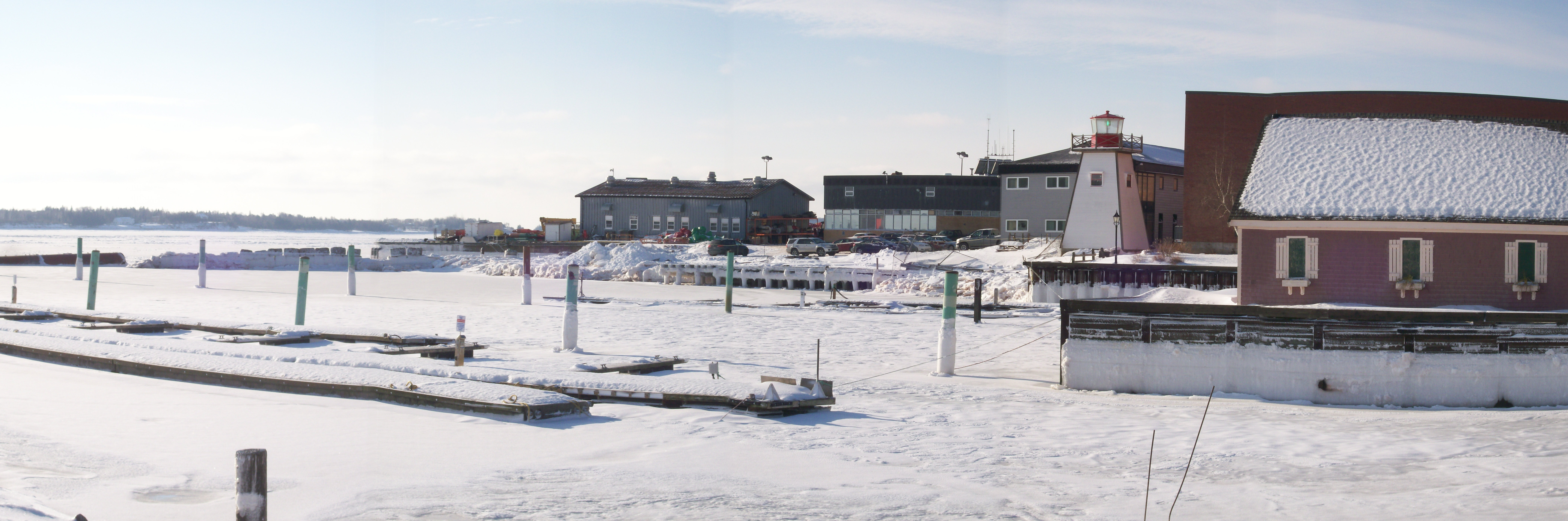 Charlottetown Lighthouse